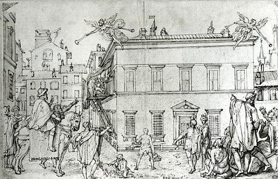 XIR268848 Michelangelo on horseback, visiting an artist (pen & ink on paper) (b/w photo) by Zuccari, or Zuccaro, Federico (1540-1609); pen and ink on paper; Ecole Nationale Superieure des Beaux-Arts, Paris, France; (add. info.: Michelangelo Buonarroti (1475-1564); Italian painter; Michel-Ange a cheval, rendant vistie a un peintre); Giraudon; Italian, out of copyright